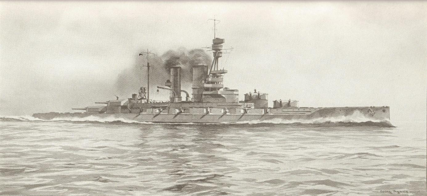 A recognition drawing of the German battleship Bayern prepared by the Royal Navy's Intelligence department that was distributed to the fleet in 1918.